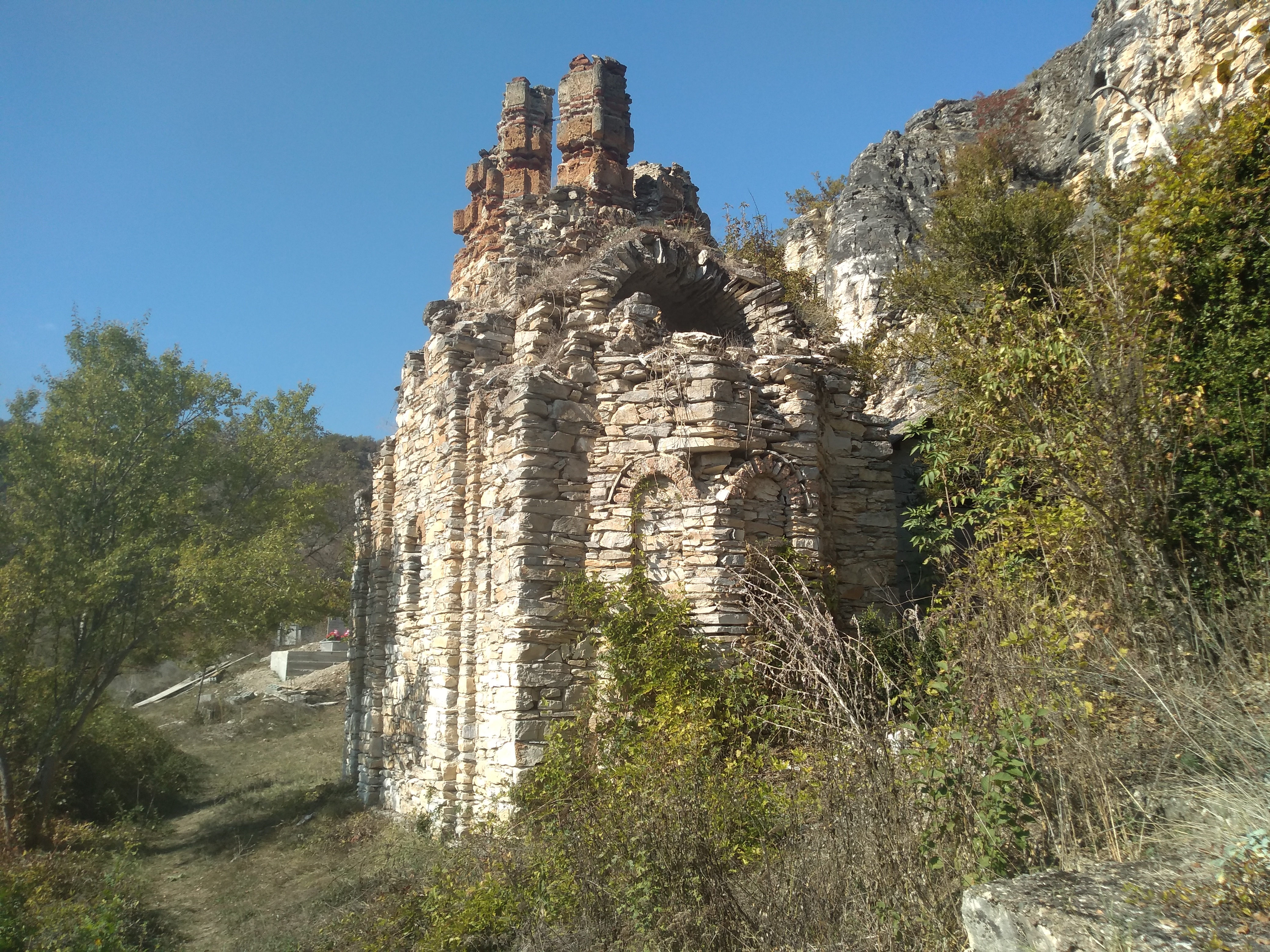 Medieval church in ruins, at Devini Kuli fortress, near Devich, in Poreche region, Macedonia